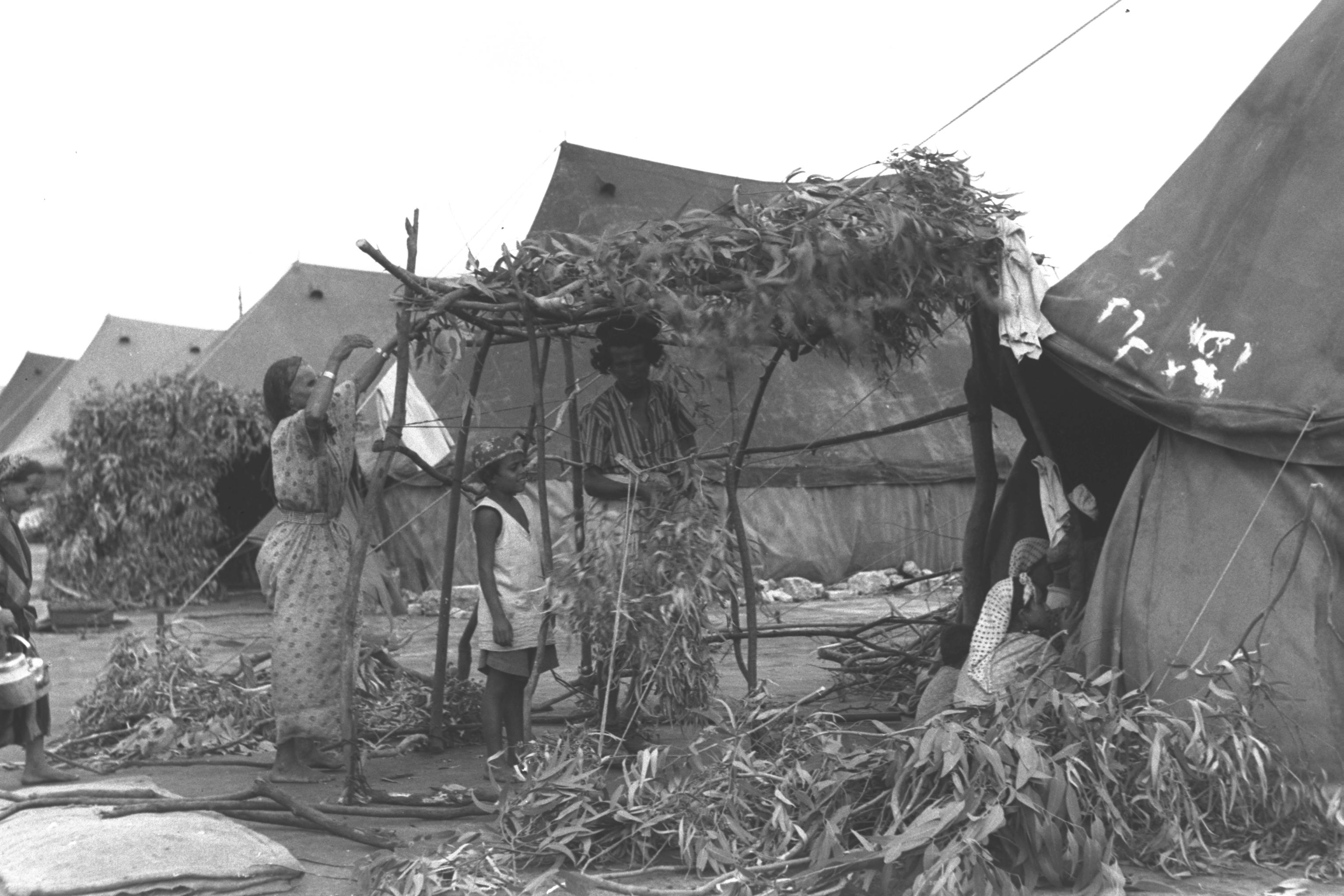 The women of the family join in to help put on the final touches during Sukkot at Ein Shemer immigrant's camp.